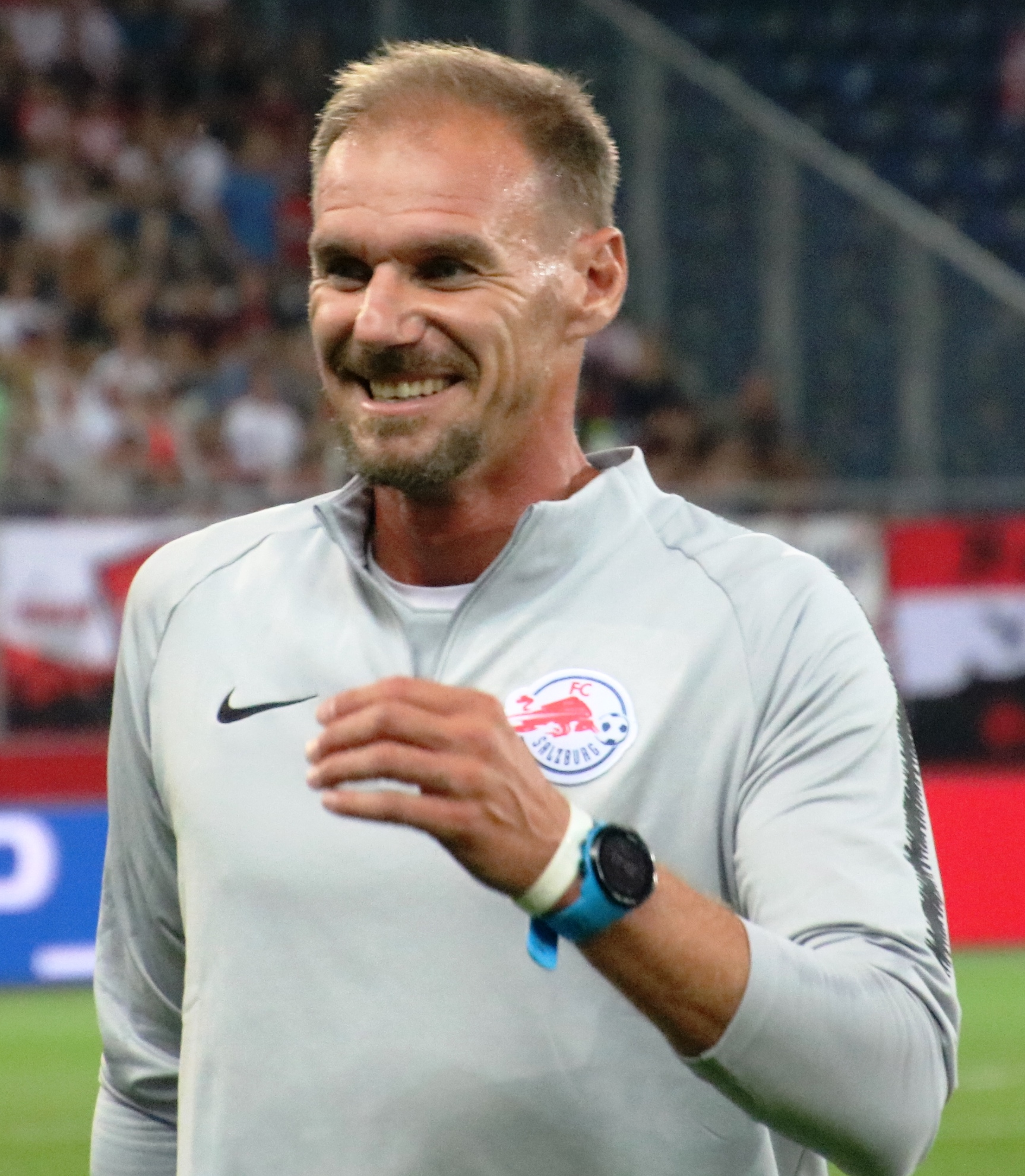 CL play off 2nd leg